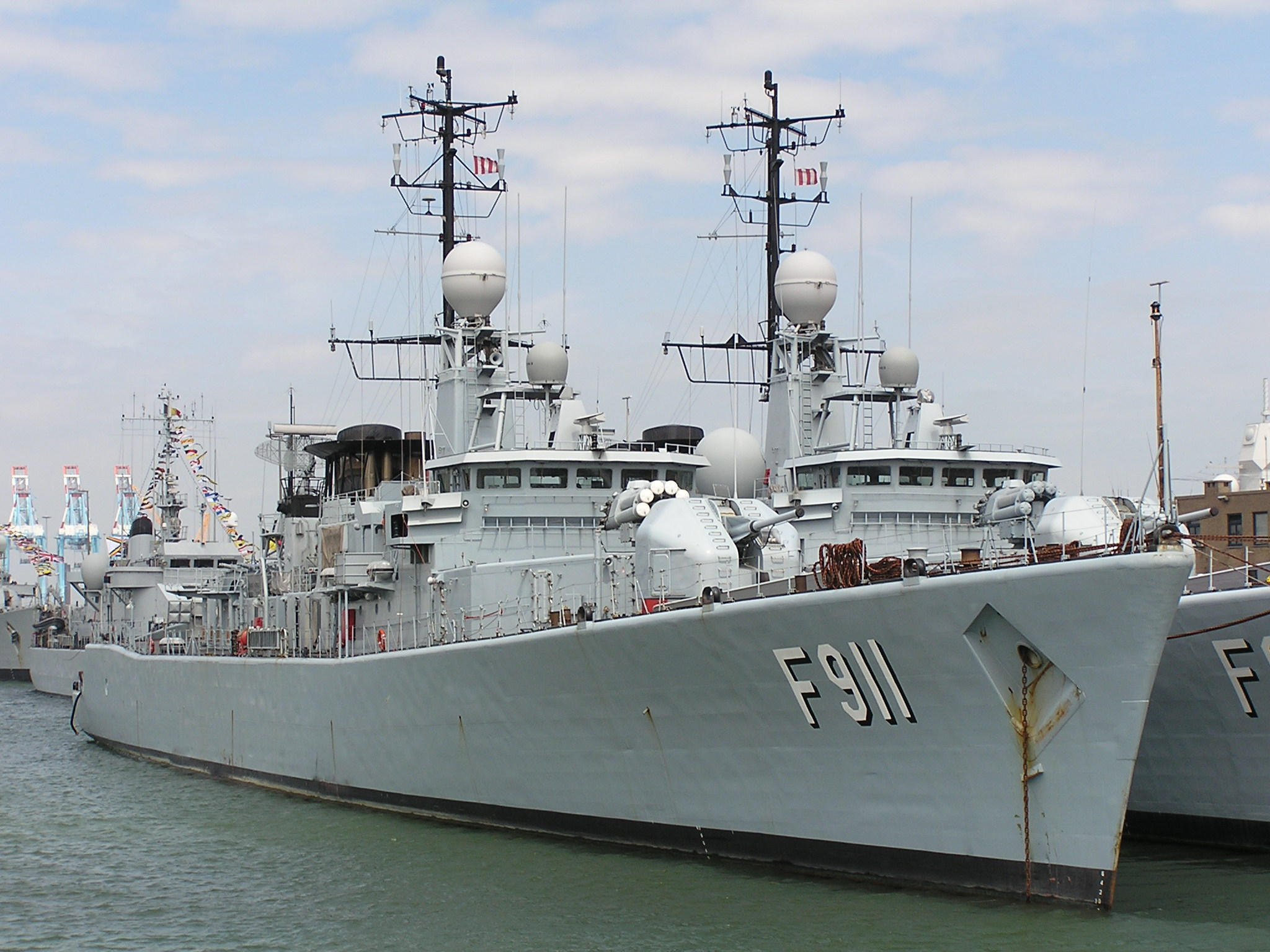 Wielingen (F910) at Zeebrugge Naval Festival, 28th July 2008.